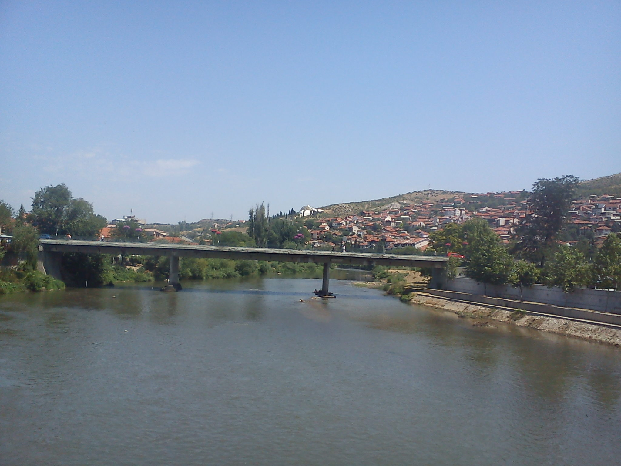 Veles, Macedonia